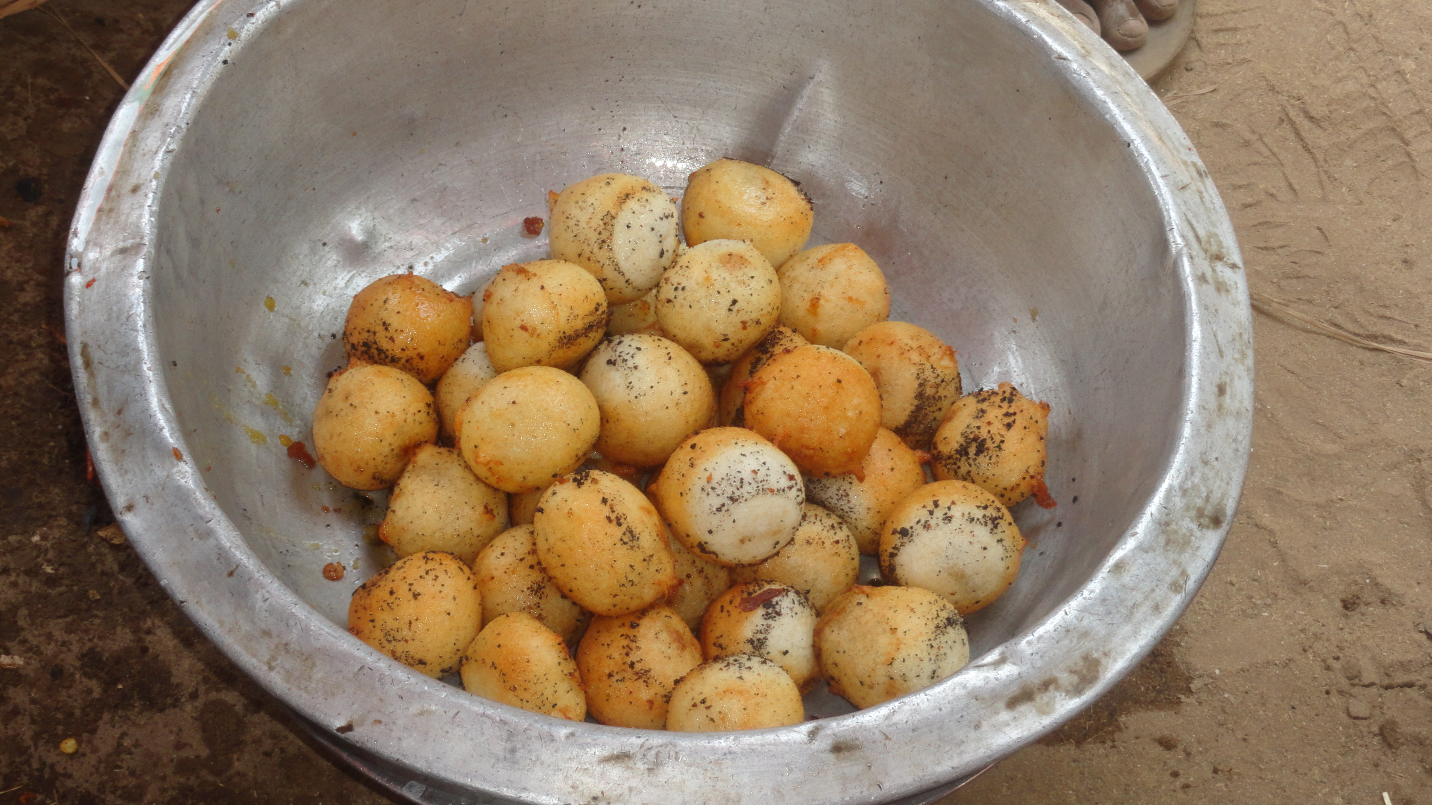 Burelu is one of the sweet dish